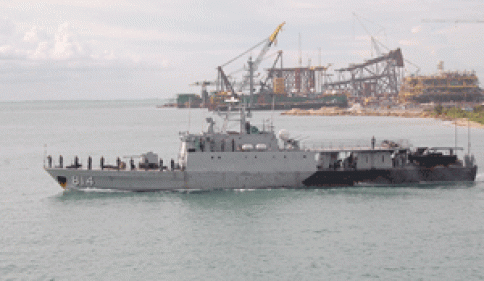 KRI Barakuda of the Indonesian Navy